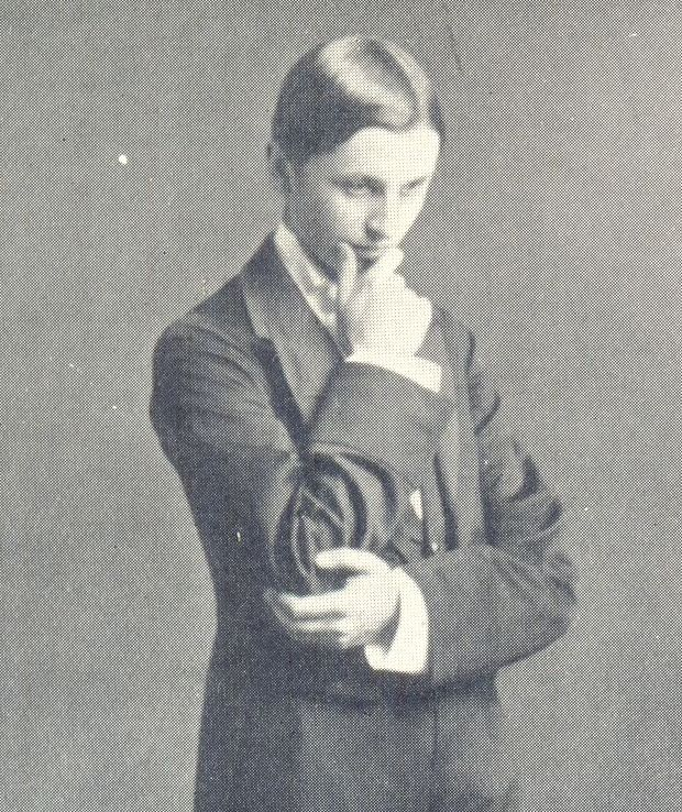 Lord Curzon as a young student at Eton